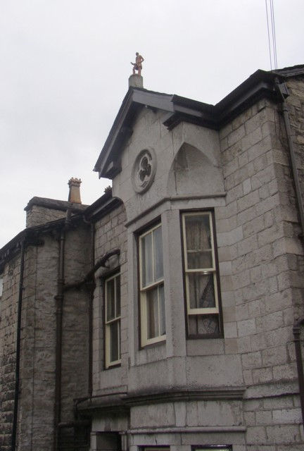 Miles Thompson statuette, Beast Banks, Kendal. Miles Thompson was a Kendal architect who designed many of the houses in Beast Banks, and has been commemorated by the figure on the gable-end of this one.